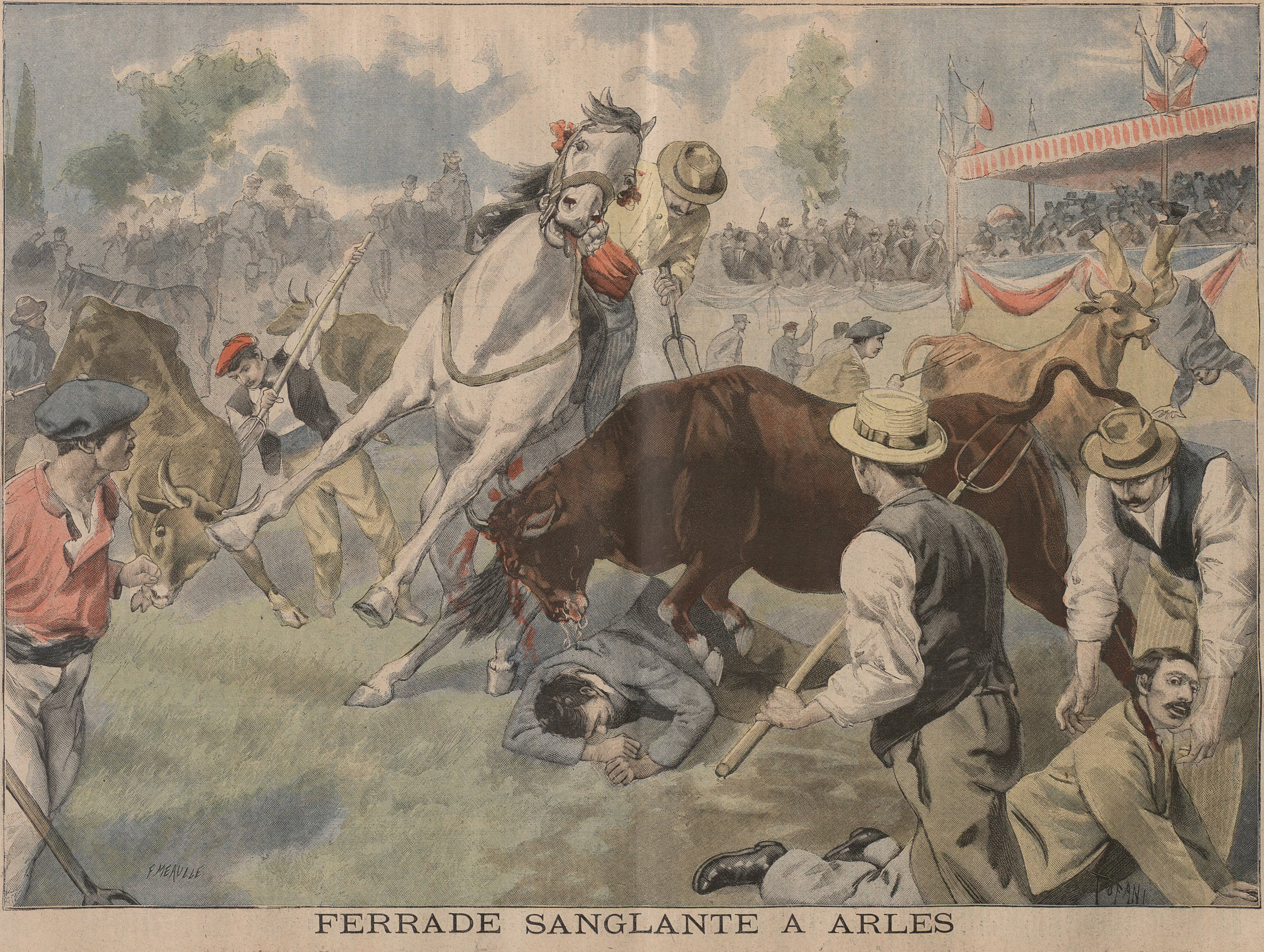 Bullfight incident at Arles, France